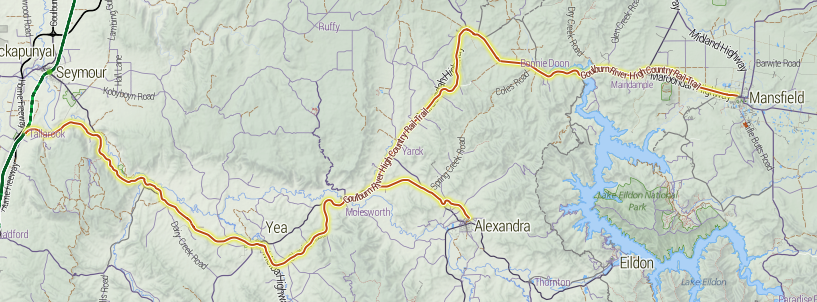 Map of the Goulburn River High Country Rail Trail aka Great Victorian Rail Trail. Data is OpenStreetMap, map style is mine.